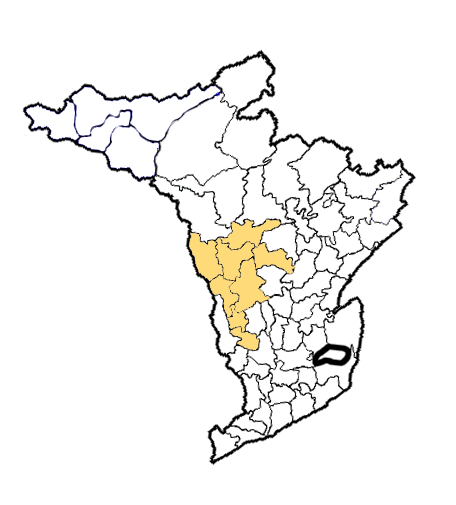 Rajahmundry revenue division in East Godavari district